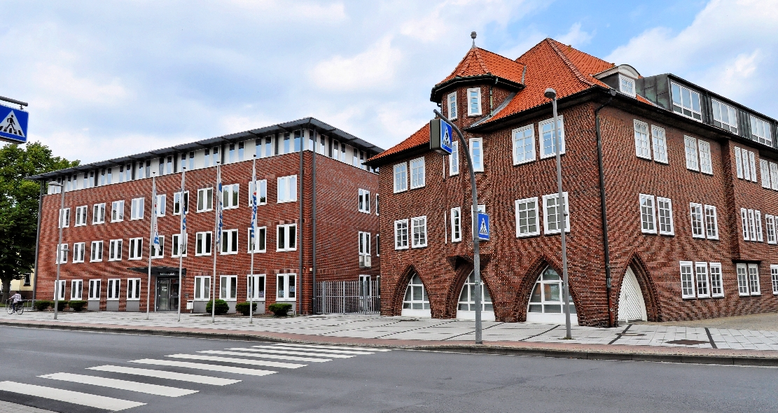 Rathaus Cuxhaven 2015